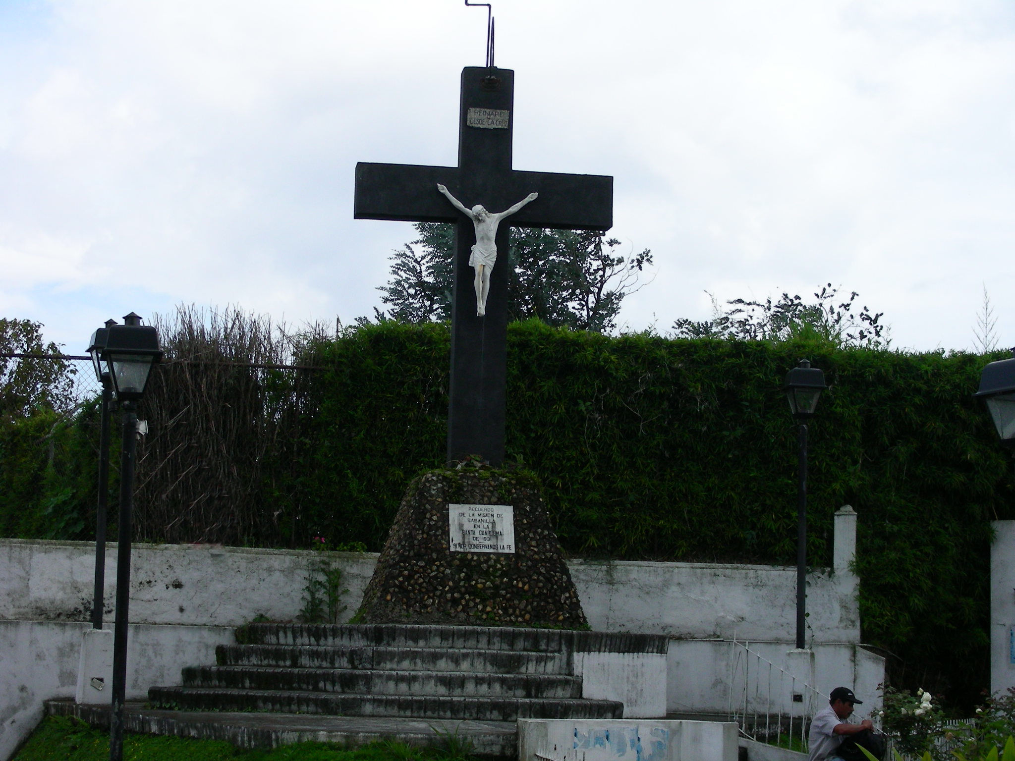 The Chirst of Sabanilla, Montes de Oca, San José, Costa Rica